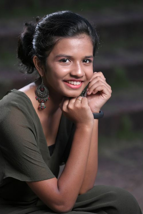 Child Artist